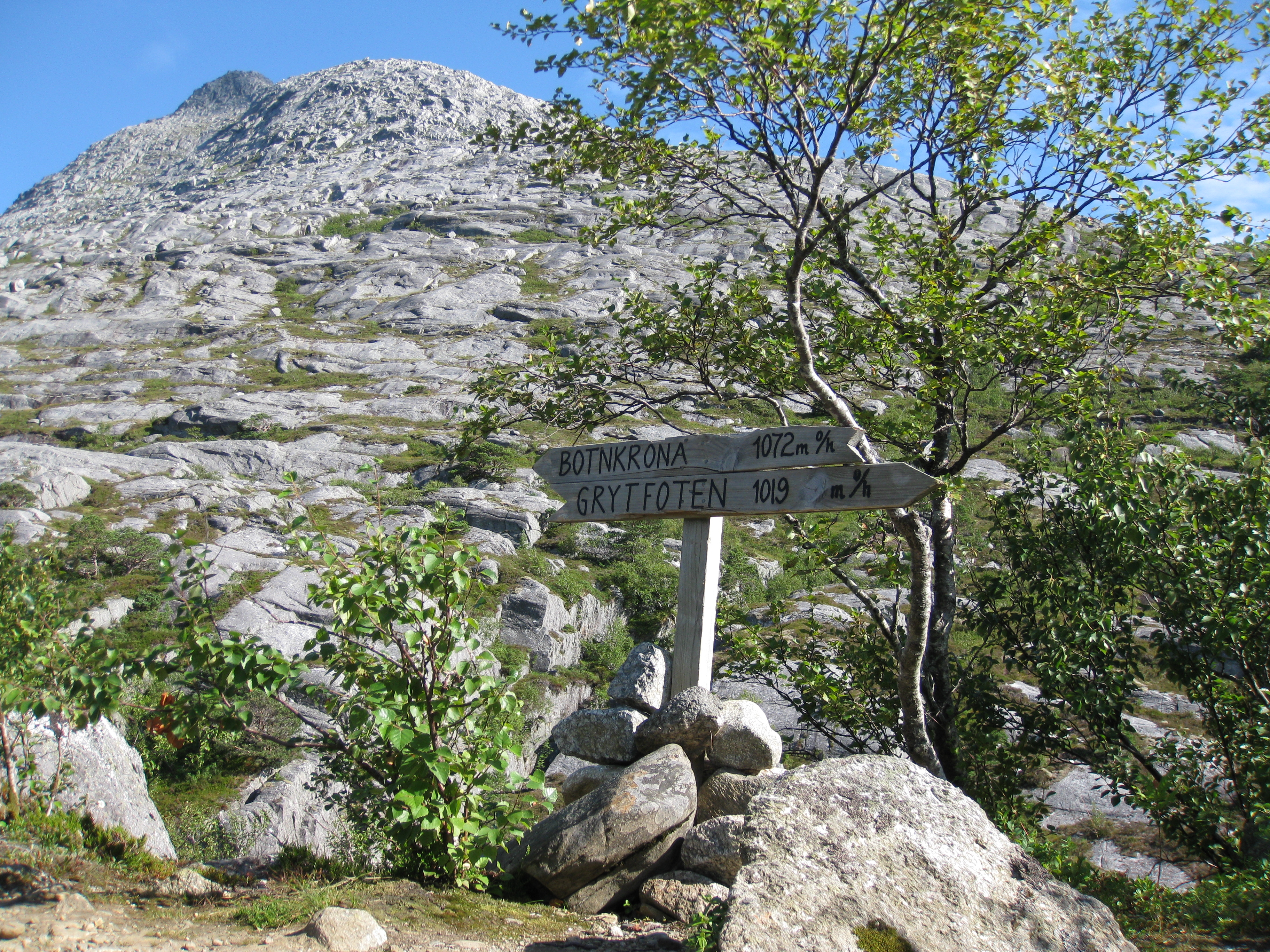 Grytfoten in the Seven Sisters mountain range in Northern Norway.